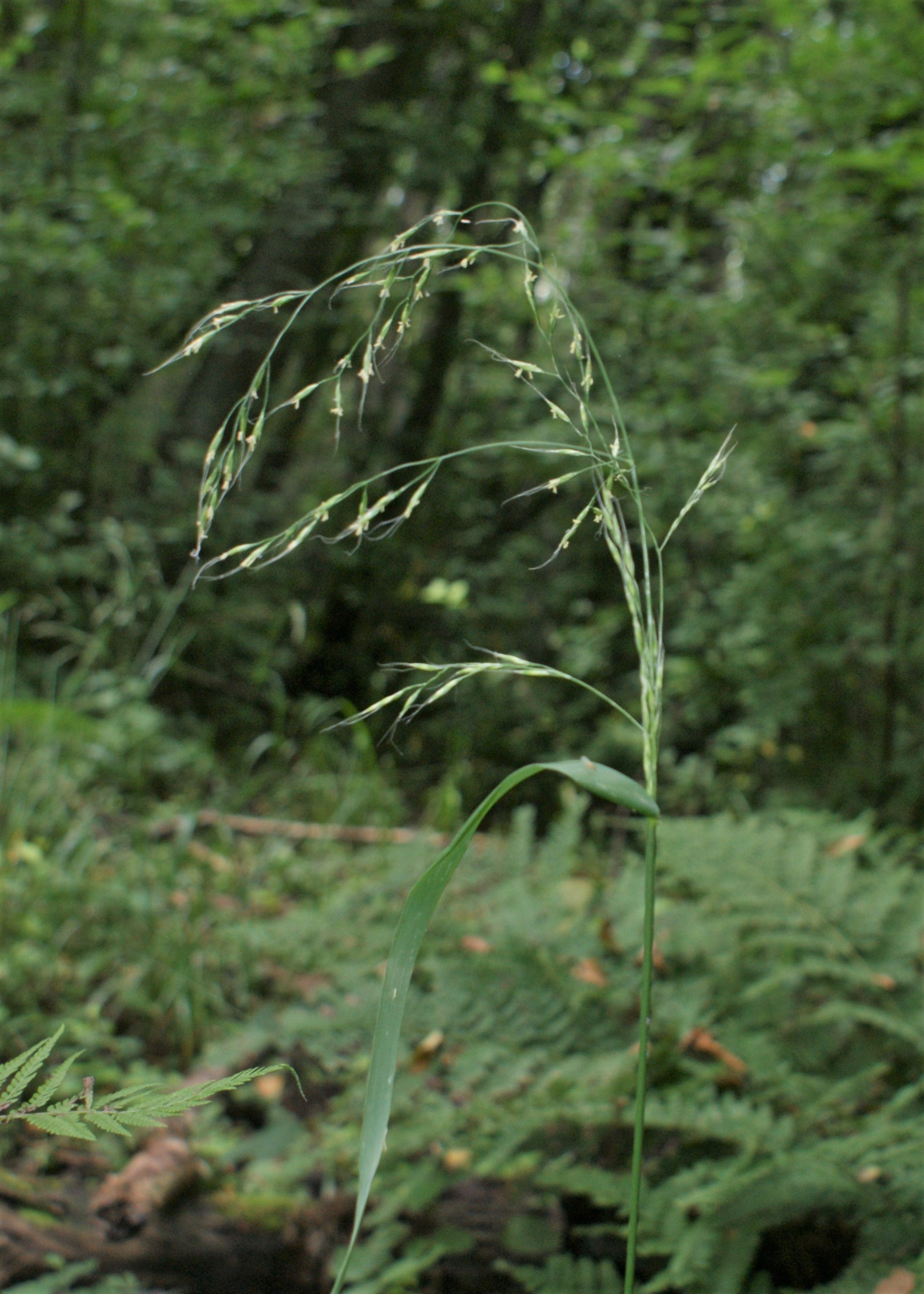 Festuca gigantea in Puszcza Bukowa (Beech Forest) near Szczecin, NW Poland